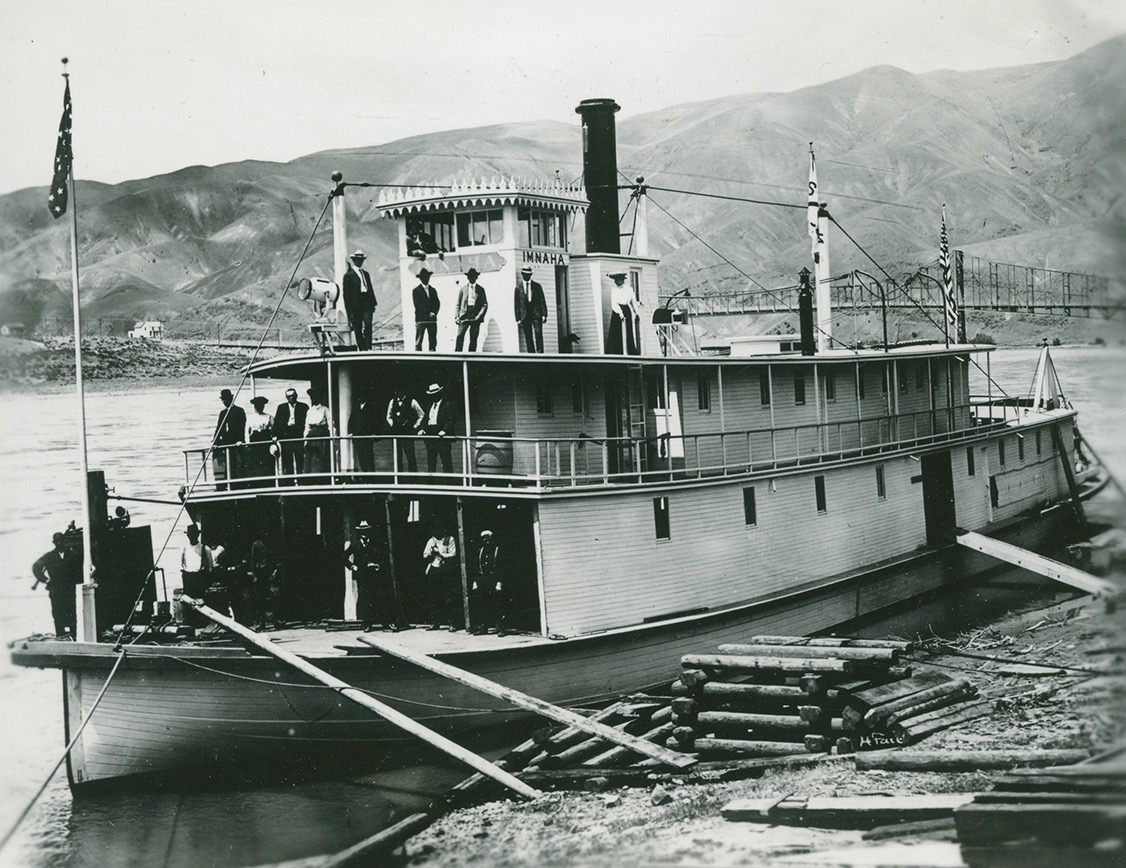 Sternwheeler Imnaha wooding up (loading cordwood fuel), at Lewiston, Idaho, 1903.